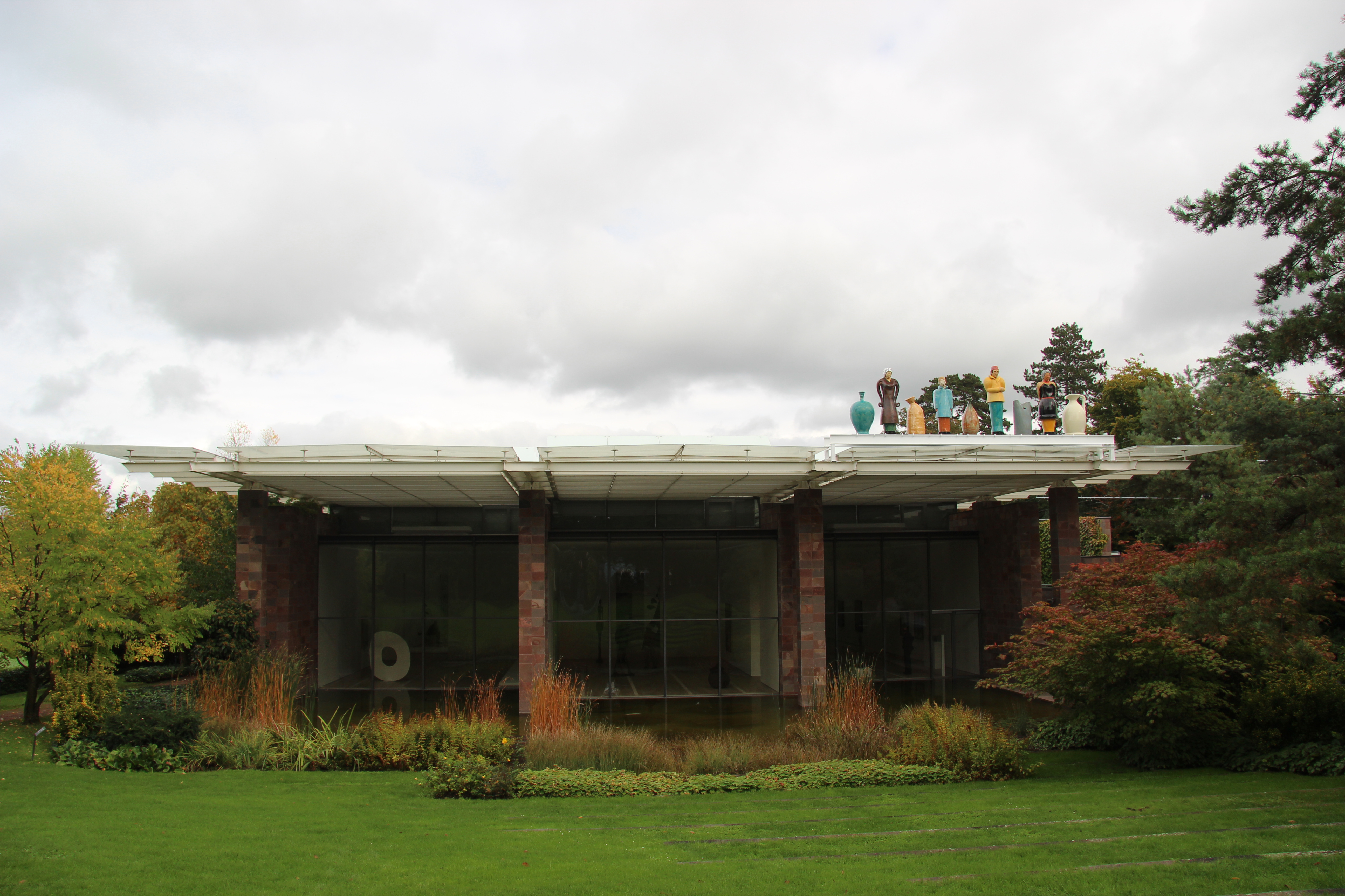 Beyeler Fondation art museum, Riehen (near Basel), Switzerland. On the roof is part of the work "Die Fremden" (1992) by Thomas Schütte during a 2013 exhibition